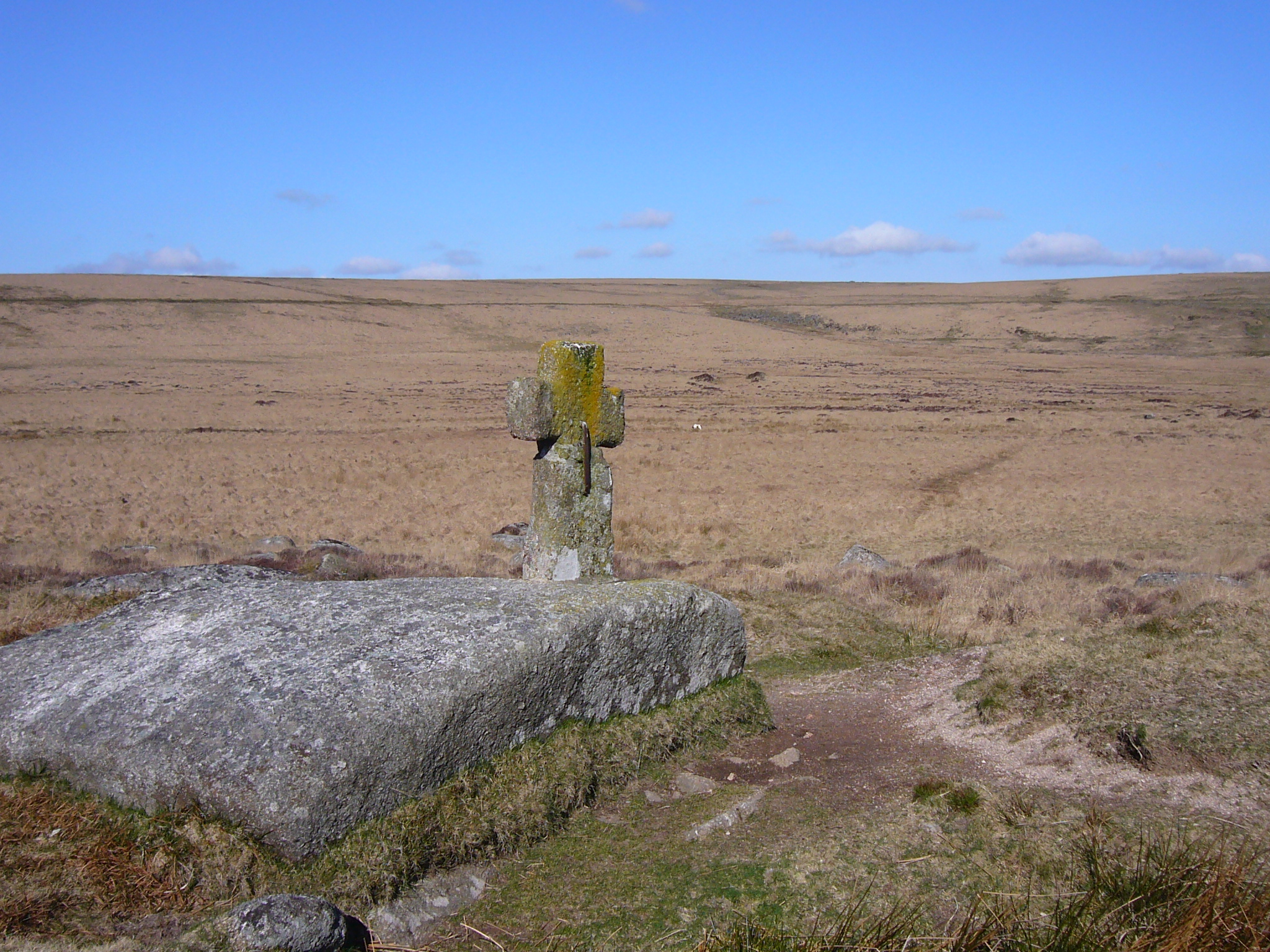 This cross is known as Goldsmith's Cross as it was re-discovered by a Lt. Goldsmith, R.N. in 1903. It may well have been used as a marker for the track from the monastery at Buckfast to the monastery at Tavistock. It is located in the Fox Tor Mire area between Childe's Tomb & Nun's Cross on South Dartmoor.